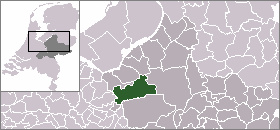 Locator map of Dutch municipalities in Gelderland (LocatieBarneveld.png)